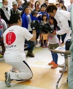 Hozumi Hasegawa (on the right) with his trainer and manager Masato Yamashita during a visit to earthquake stricken Yamamoto, Miyagi, in May 2011. cf. (in Japanese)